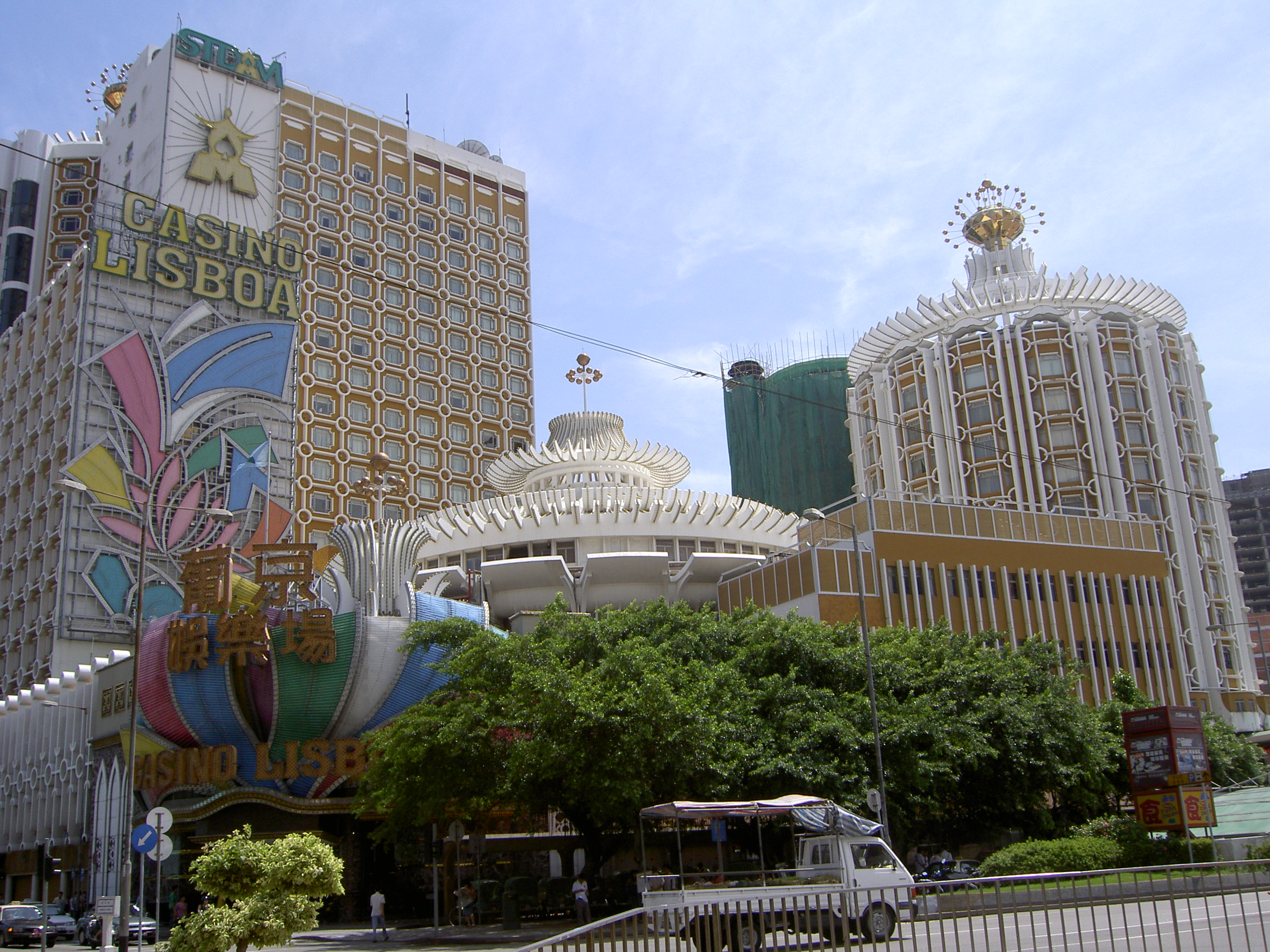 Hotel de Lisboa (葡京酒店) is the largest and probably the best-known casino hotel in Macau, People's Republic of China. Photo taken by Netsonfong.